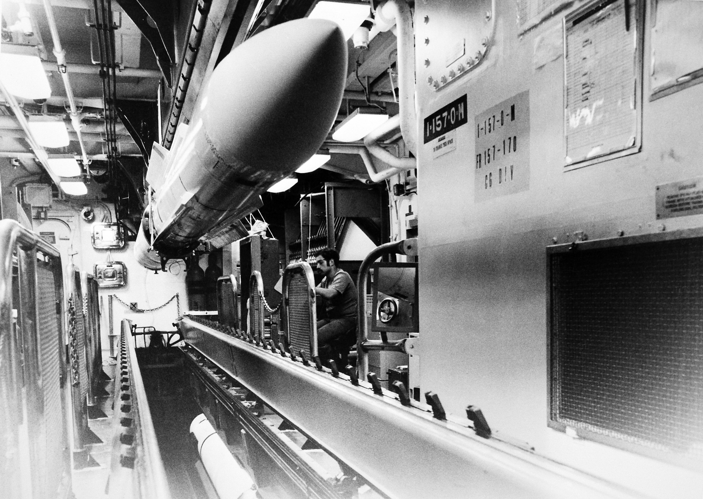 RIM-67 Standard ER missiles are loaded on the missile house rail aboard the U.S. Navy guided missile destroyer USS Mahan (DDG-42) on 1 March 1983. The missiles were fired as part of the test and evaluation of the New Threat Upgrade (NTU) combat system.